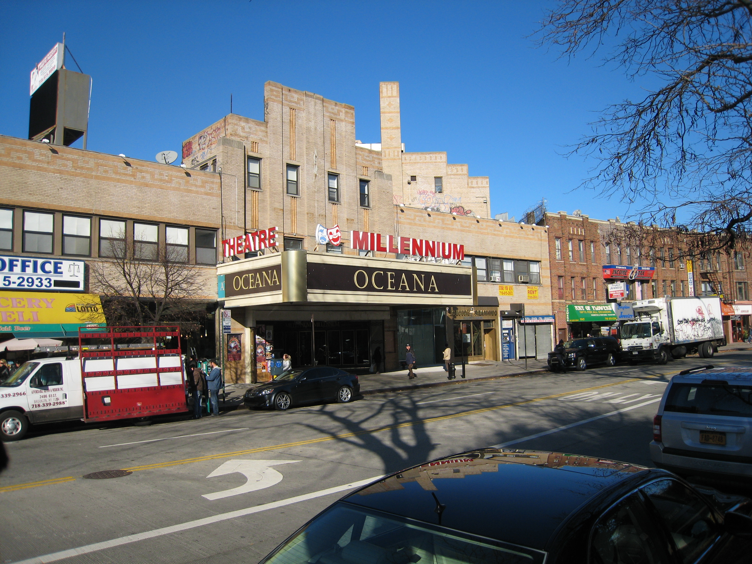 Brighton Beach, Brooklyn